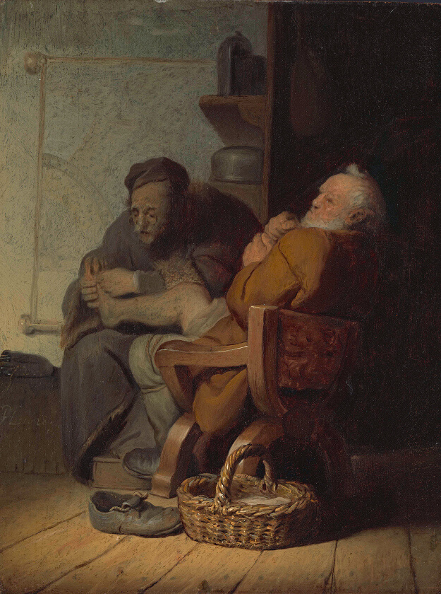 The Foot Operation